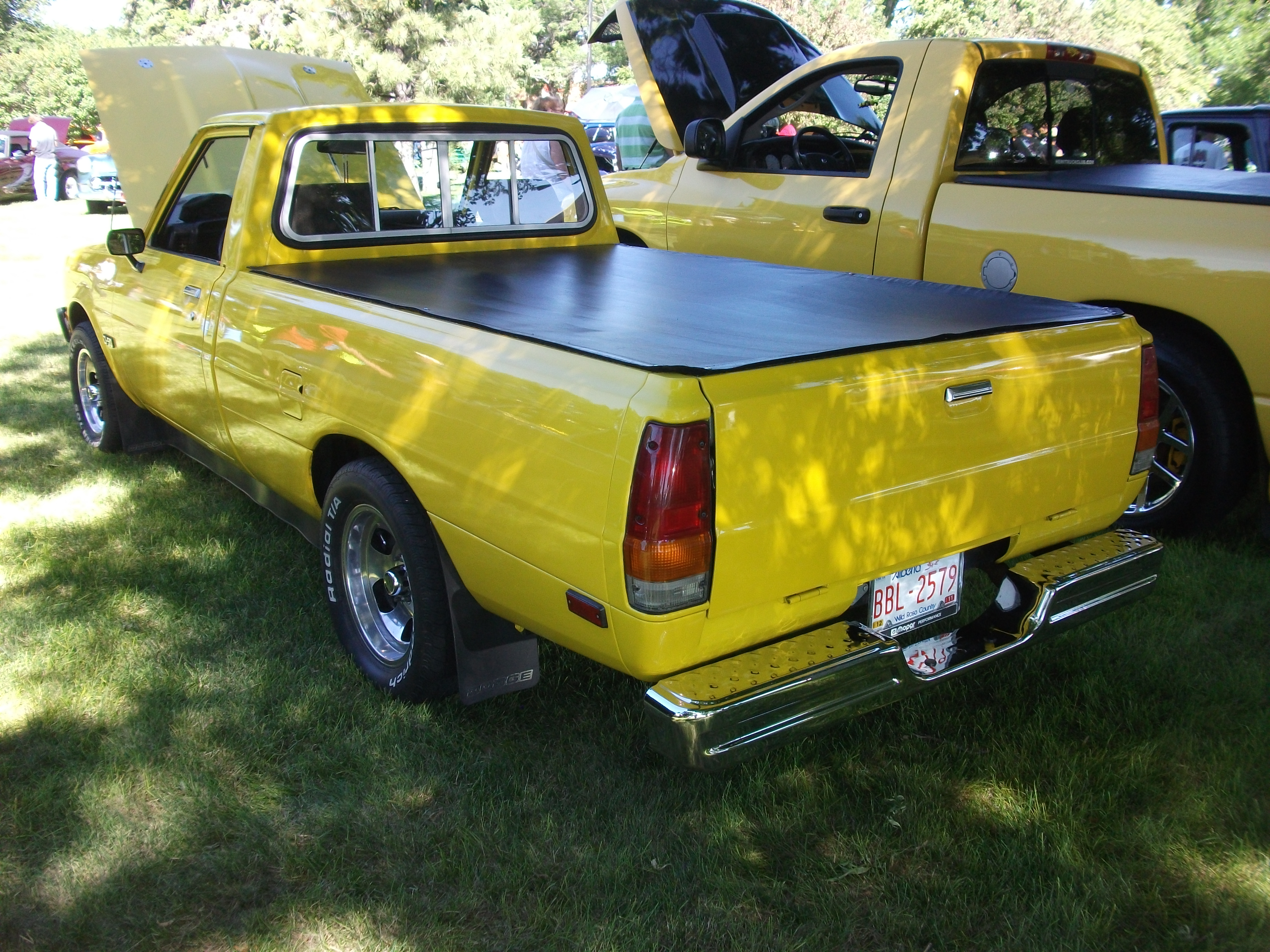 This 1980 Dodge D50 had a Chrysler 360cid V8 swapped in.